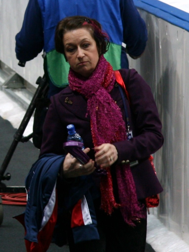 Priscilla Hill at the 2010 Cup of Russia